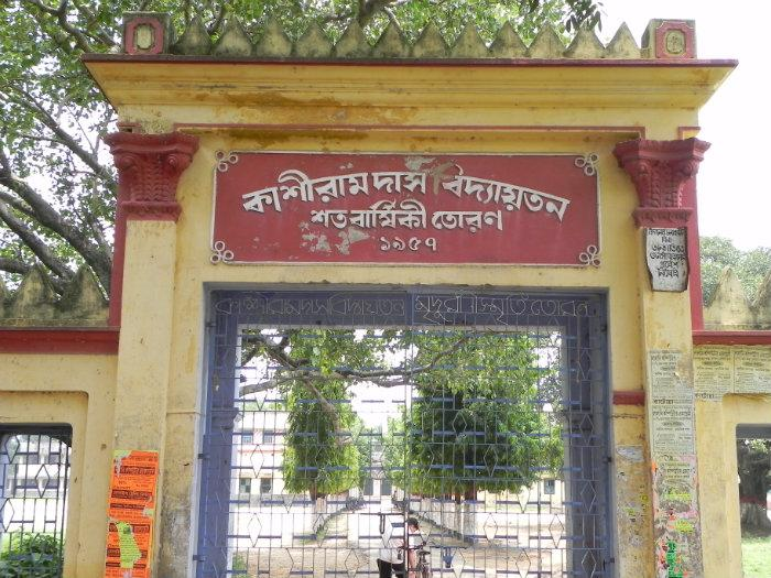 Kashiram Das Institution Katwa